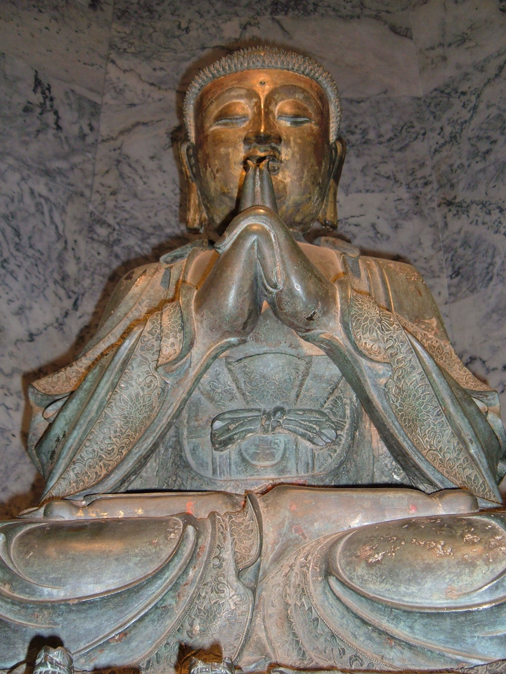 Detail of a copper alloy statue of Vairochana (Ming Dynasty) seated on a lotus on display at the Iris & B. Gerald Cantor Center for Visual Arts on the Stanford University campus in Stanford, California.